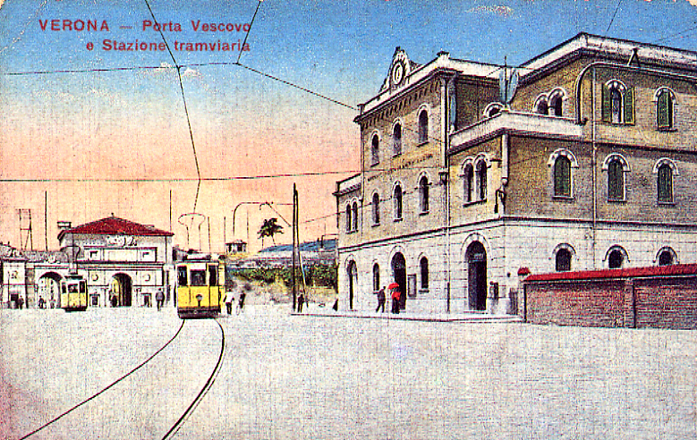 Porta Vescovo in Verona in a vintage postcard